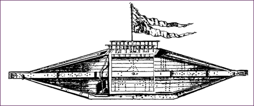 de Son´s submarine